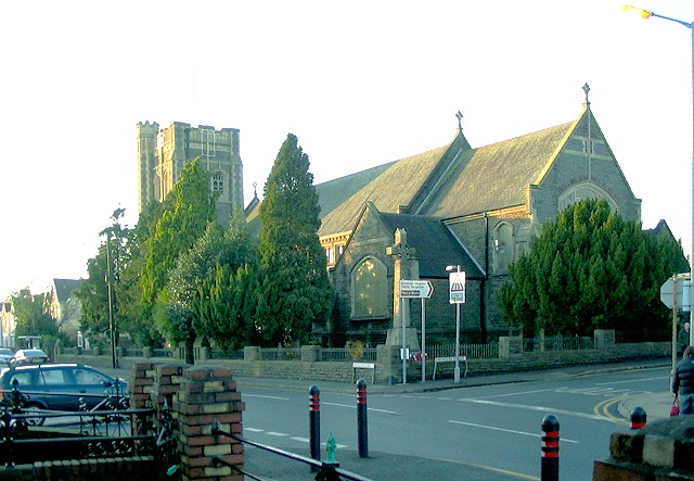 St Catherine's Church, Gorseinon (Recreated)